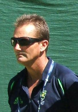 Andrew Hilditch at a training session at the Adelaide Oval